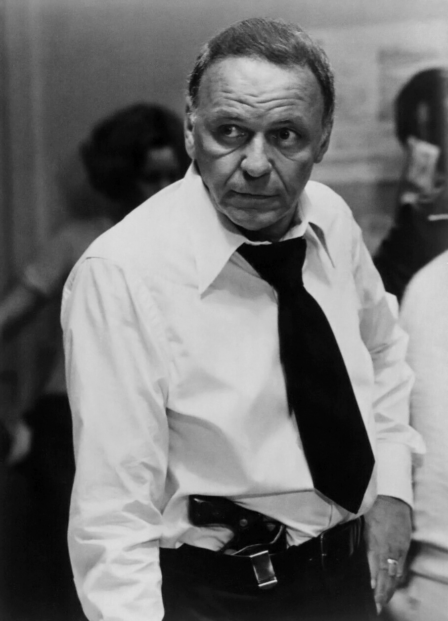 Publicity photo of Frank Sinatra as Det. Insp. Frank Hovannes in the made-for-TV film Contract on Cherry Street, which premiered on November 19, 1977.